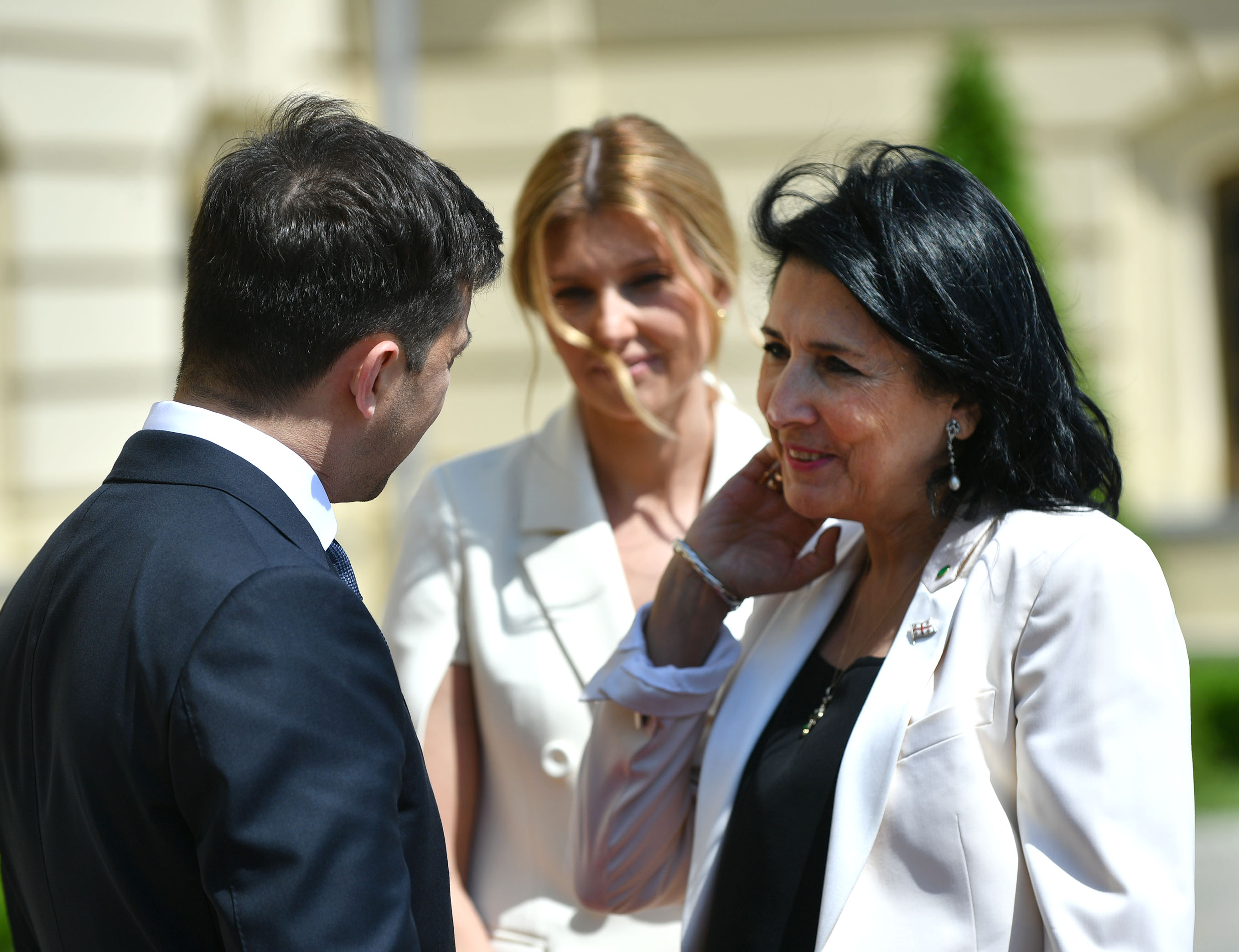 Volodymyr Zelensky presidential inauguration, 20th May 2019